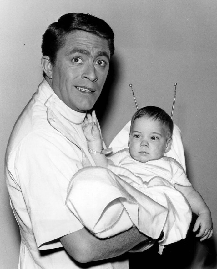 Photo of Bill Bixby as Tim O'Hara from the television program My Favorite Martian. In this episode, an accident with a rejuvenation bulb takes Uncle Martin (played by Ray Walston) back to babyhood.